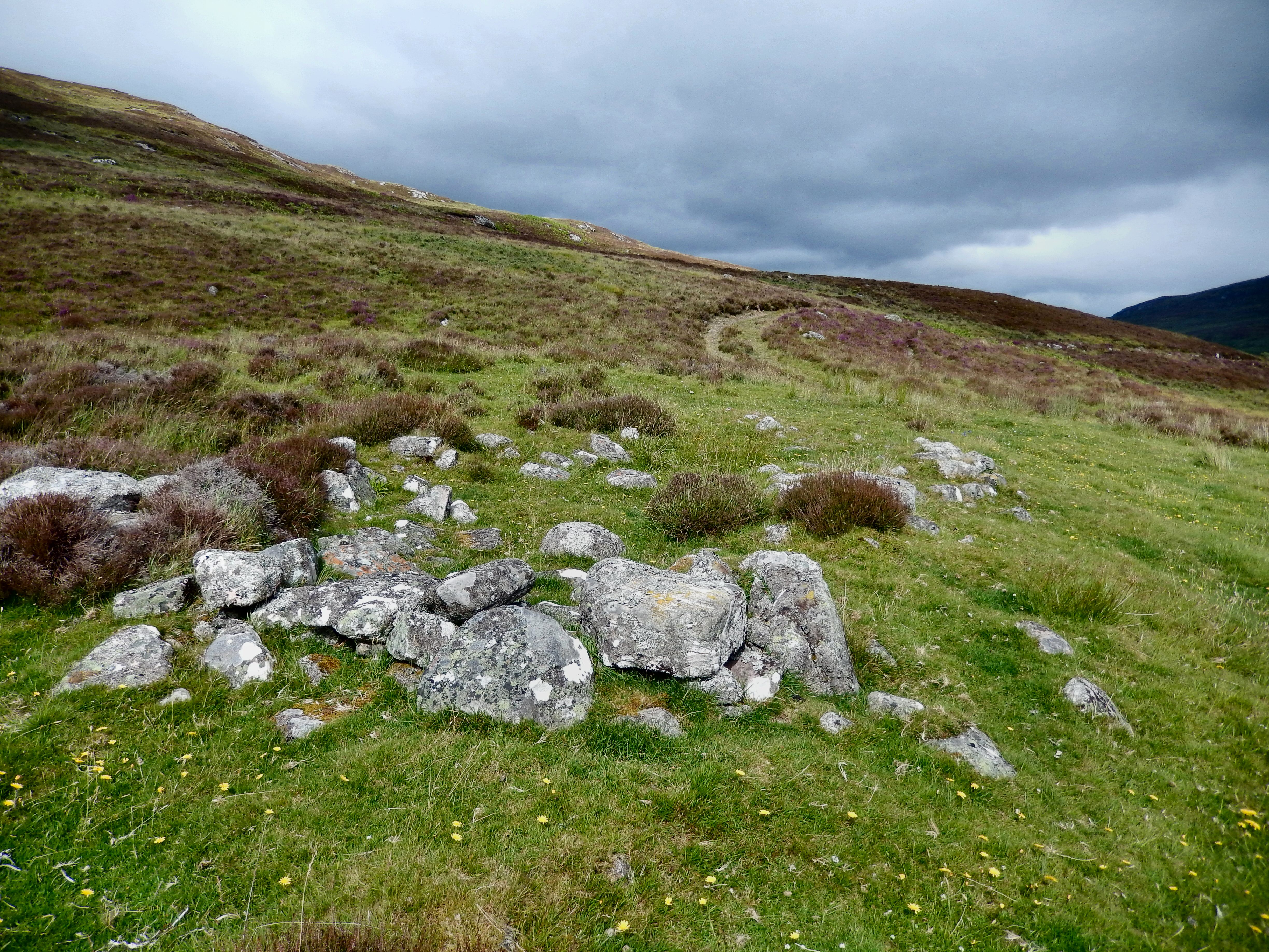 The scant ruins of a shieling at Catlodge, near Laggan, marked by a green area around the building, contrasting with the heathery moorland.